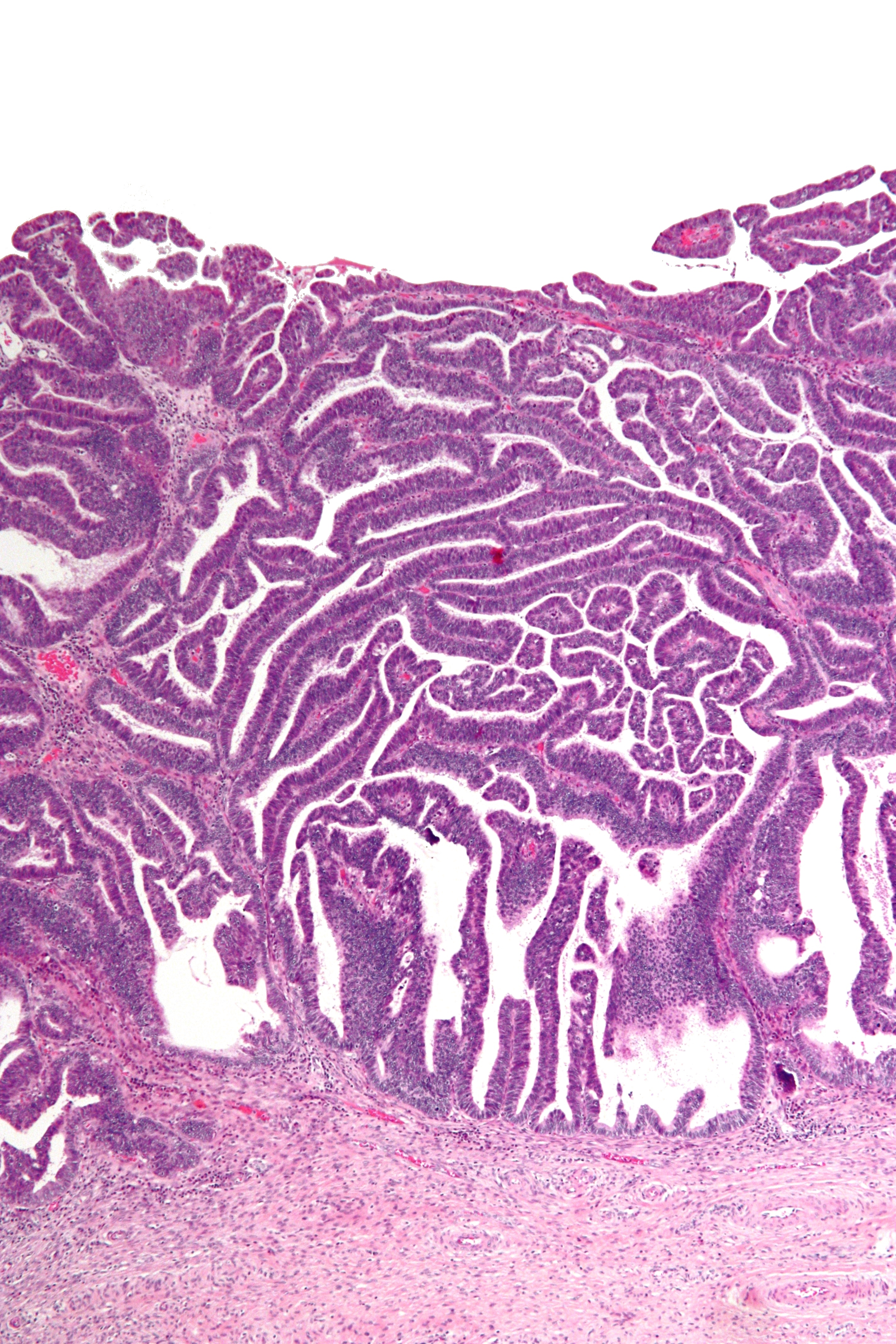 Low magnification micrograph of villoglandular adenocarcinoma of the cervix, also villoglandular papillary adenocarcinoma, papillary villoglandular adenocarcinoma and well-differentiated villoglandular adenocarcinoma. It is abbreviated VGA. H&E stain. VGA is a rare type of cervical cancer that, in relation to other cervical cancers, is typically found in younger women and has a better prognosis.[1] Related images Very low mag. Low mag. Intermed. mag. High mag. Very high mag. References ↑ (2009). "Villoglandular papillary adenocarcinoma of the uterine cervix: a diagnostic challenge.". Acta Obstet Gynecol Scand 88 (3): 355-8.